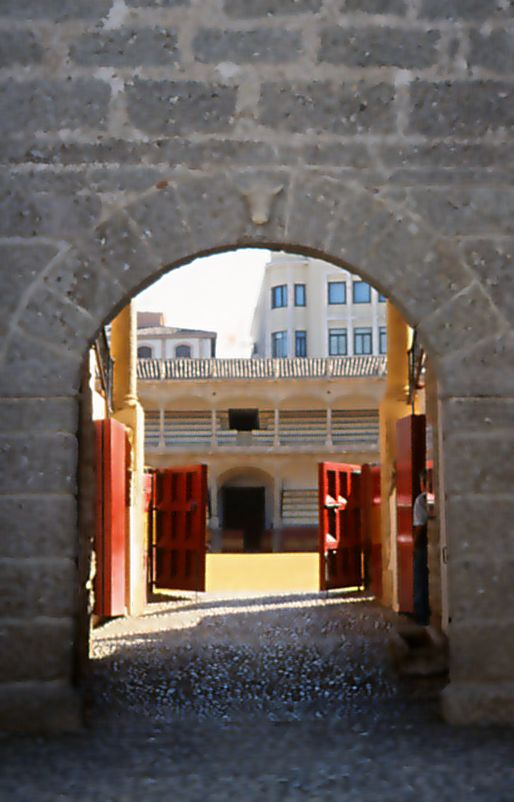 The bullfighter arena in Ronda, Andalucia, Espana. September 15, 2001.